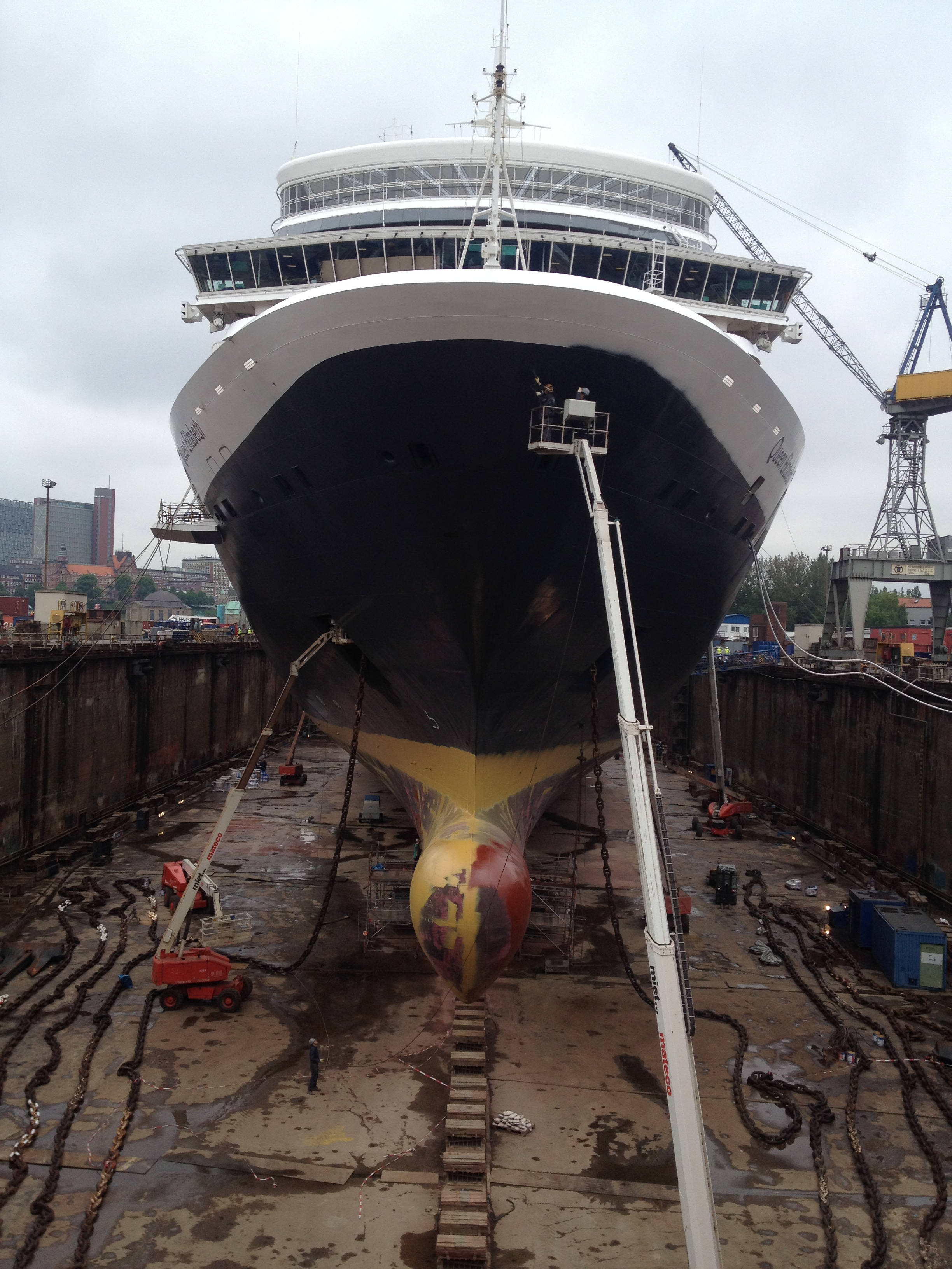 Cunar Line ship Queen Elizabeth in Elbe 17 dry dock at Blohm + Voss Repair yard in Hamburg